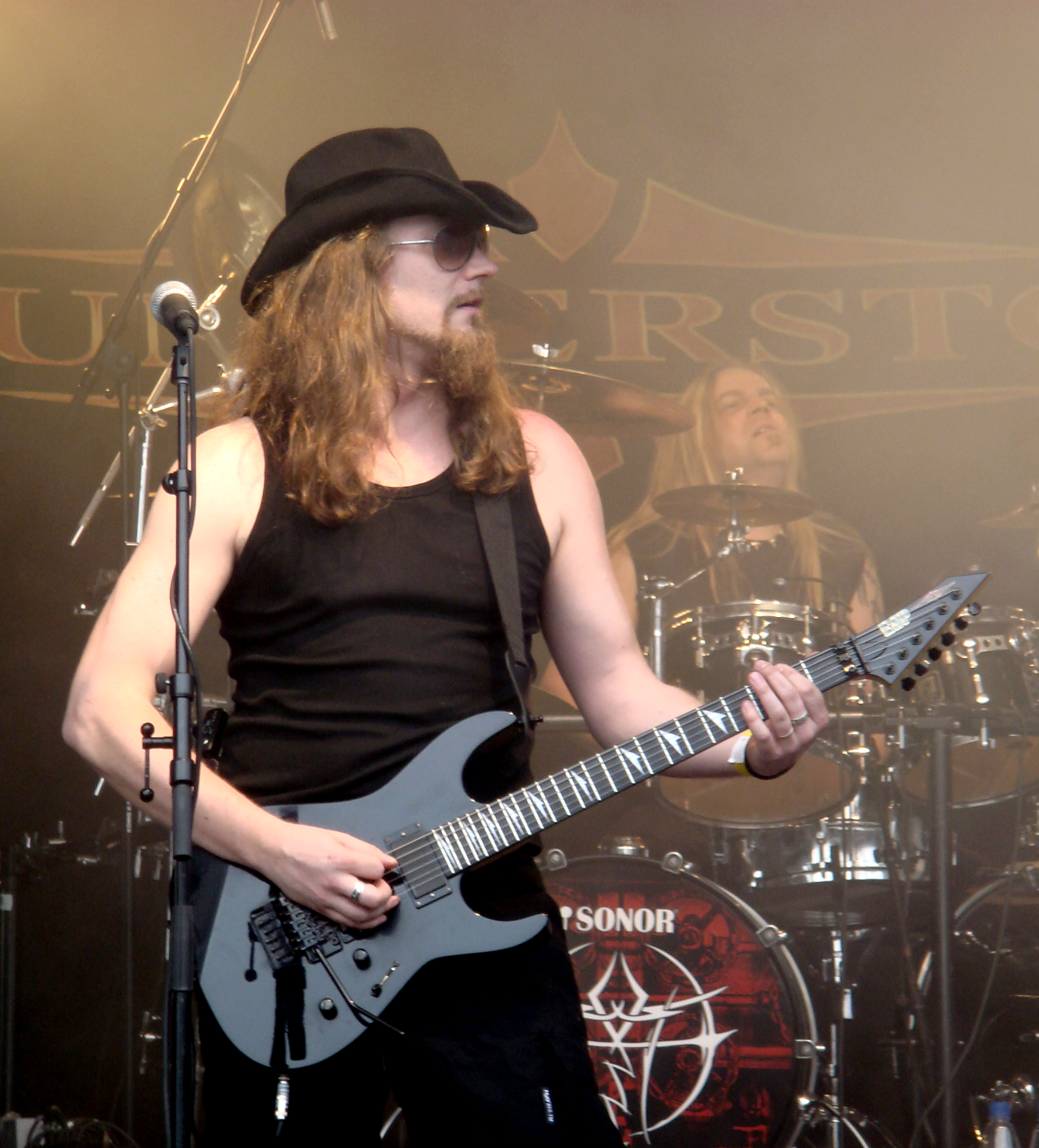 Nino Laurenne, guitarist of the Finnish metal band Thunderstone at the Sauna Open Air 2007 Metal Festival